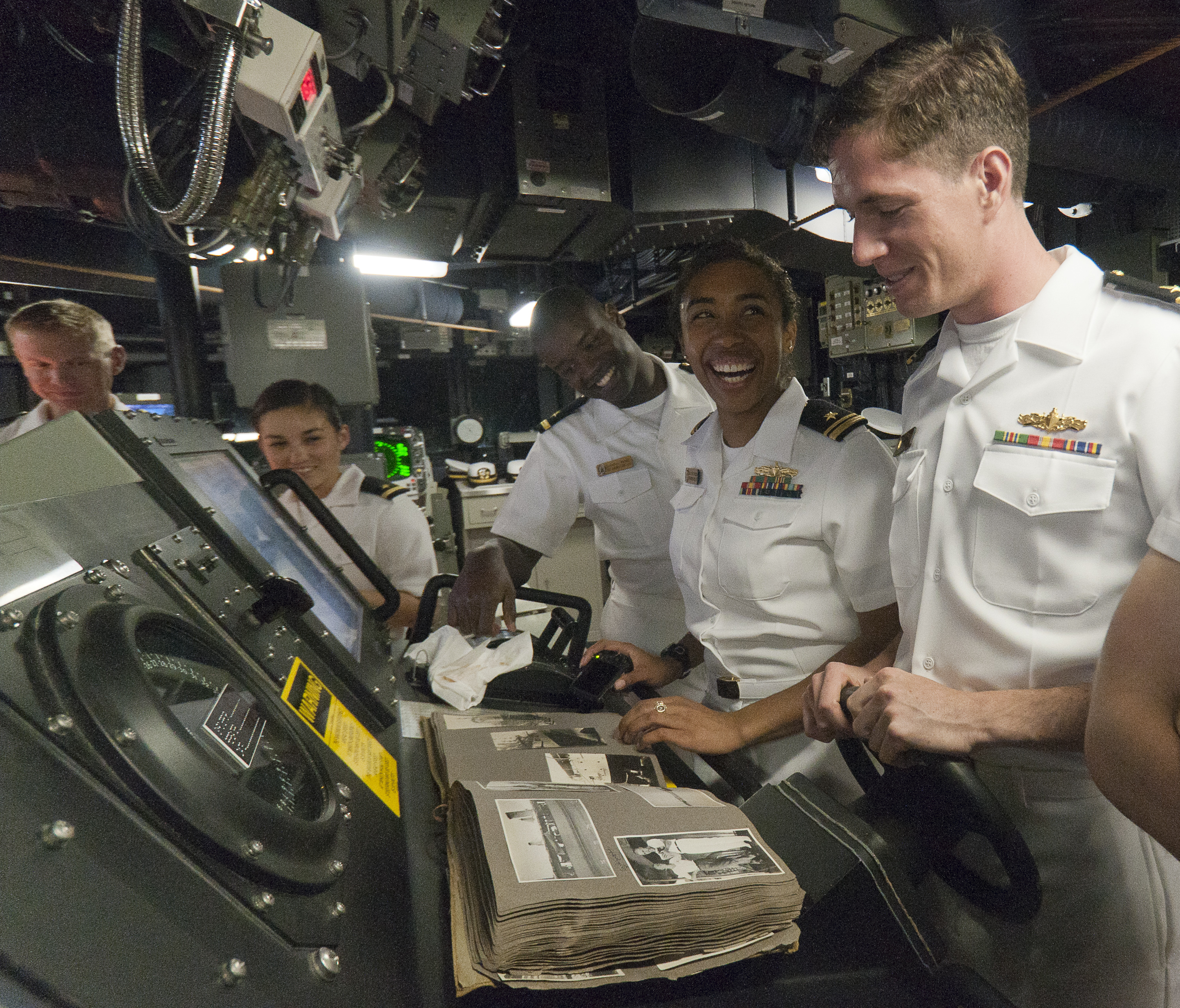 NEWPORT, R.I. (Sept. 6, 2011) Junior officers aboard the guided-missile destroyer Pre-Commissioning Unit (PCU) Spruance (DDG 111) look through a photo album of the ship's namesake, Adm. Raymond Spruance. Spruance will be commissioned Oct. 1, in Key West, Fla. (U.S. Navy photo/Released)